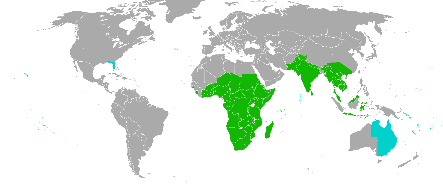 Distribution of Gloriosa superba. Natural distribution (green) according to Kew's World Checklist of Selected Plant Families (2011). Area of introduction (pale blue) according to: PLANTS Profile: Gloriosa superba L. Pacific Island Ecosystems at Risk (PIER)